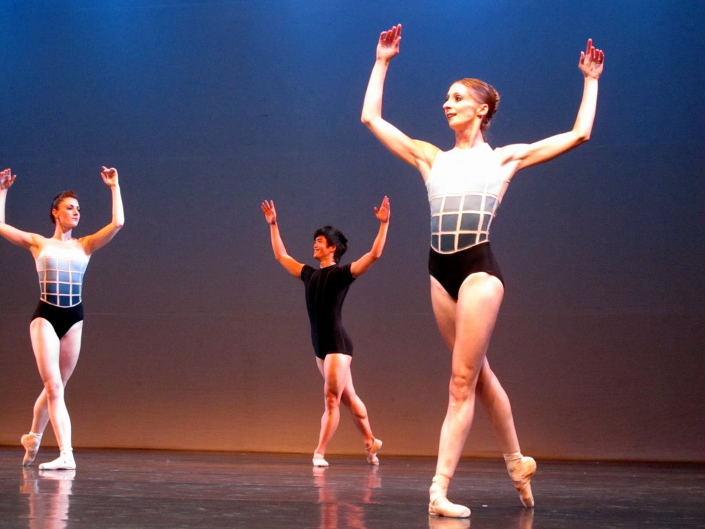 Members of the Royal Winnipeg Ballet.